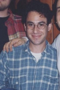 Josh Weinstein in 1994. cropped version of Image:Simpsons writers1.jpg